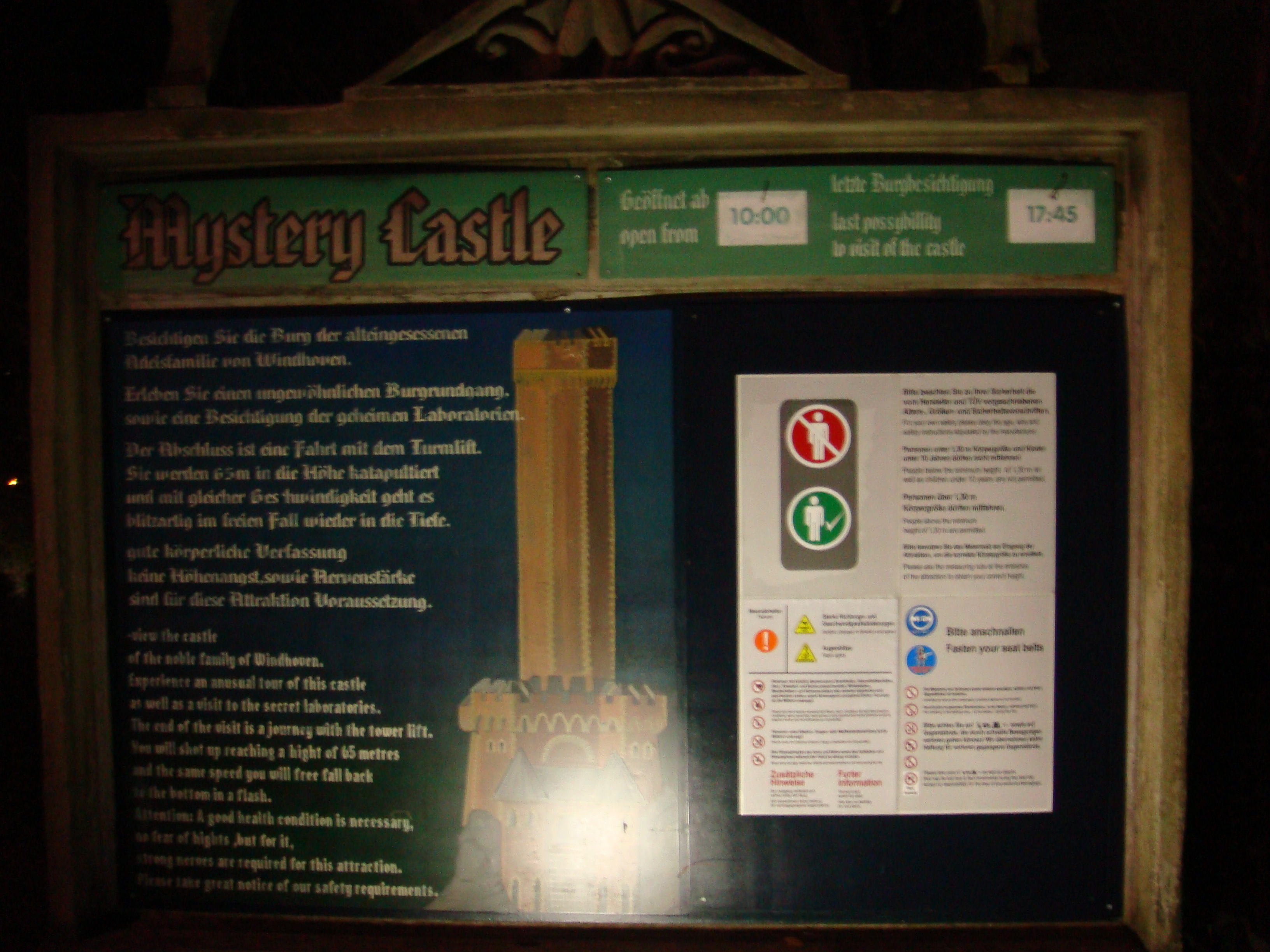 Safety Sign at Mystery Castle in Phantasialand.